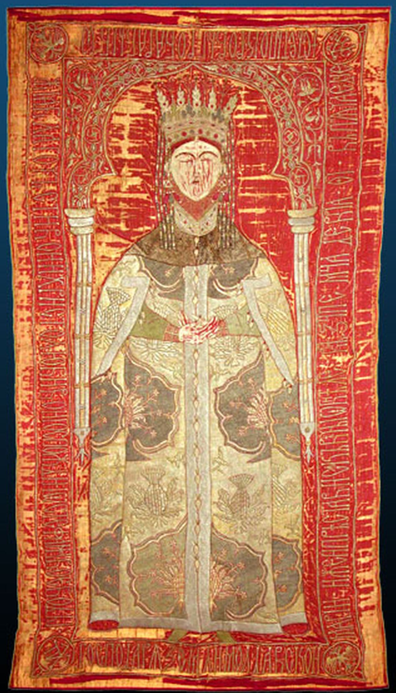 Cover for the Tomb of the Mary from Mangop, the wife of the Moldavian King, Ștefan cel Mare